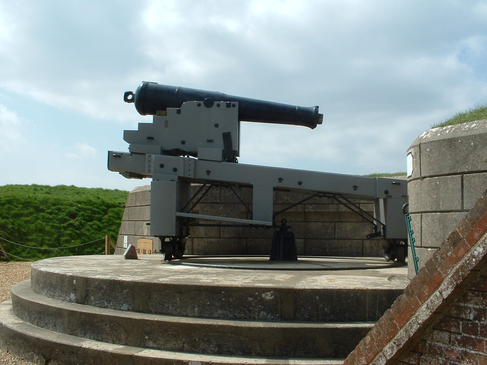 Converted on Palliser's system form a smoothbore 32 pounder of 58cwt, by inserting a rifled tube. Mounted on a reproduction traversing carriage. This equipment represents port of Fort Nelson's original armament. Photographed on 26-Apr-06 at Fort Nelson, Portsmouth.